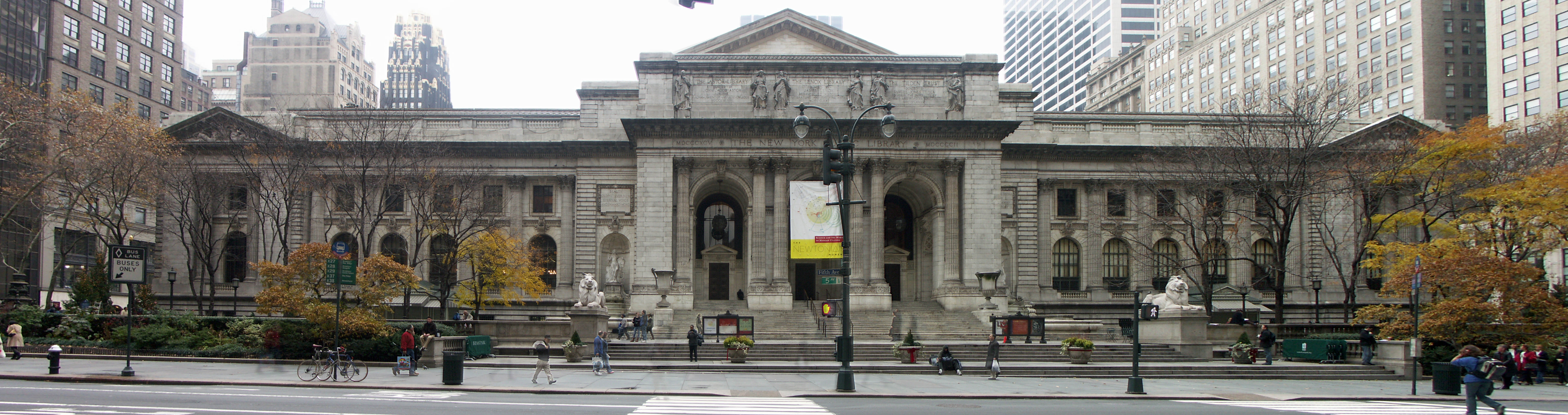 Front facade and main entrance of the New York Public Library — panorama made with 4 pictures.